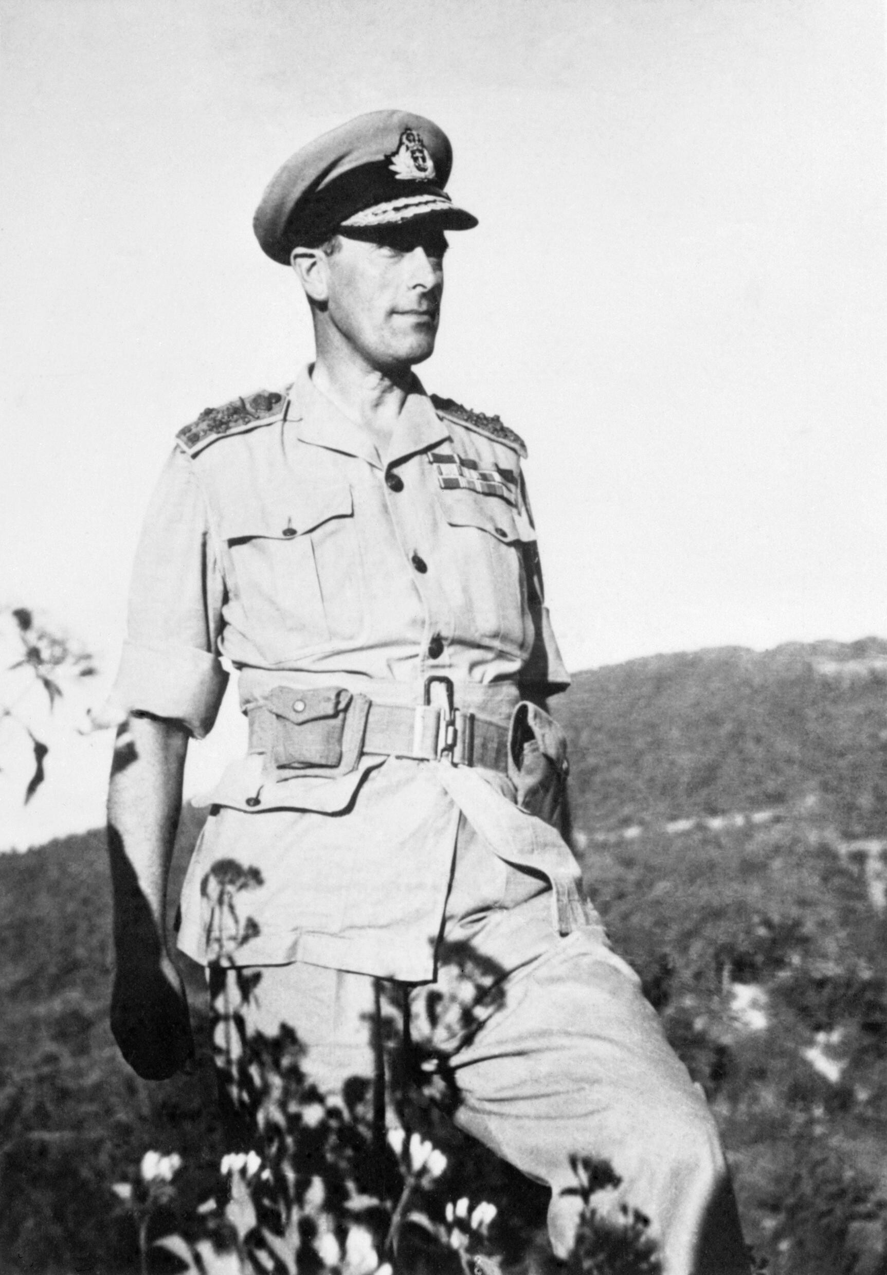 Admiral Lord Louis Mountbatten Supreme Allied Commander South East Asia (SACSEA) 1943-1945, before which he had been Chief of Combined Operations. Photographed during his tour of the Arakan Front, February 1944.